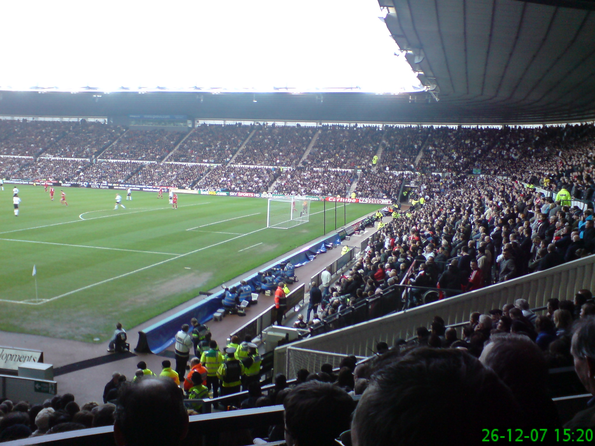 The South Stand (right) on Boxing Day in 2007.